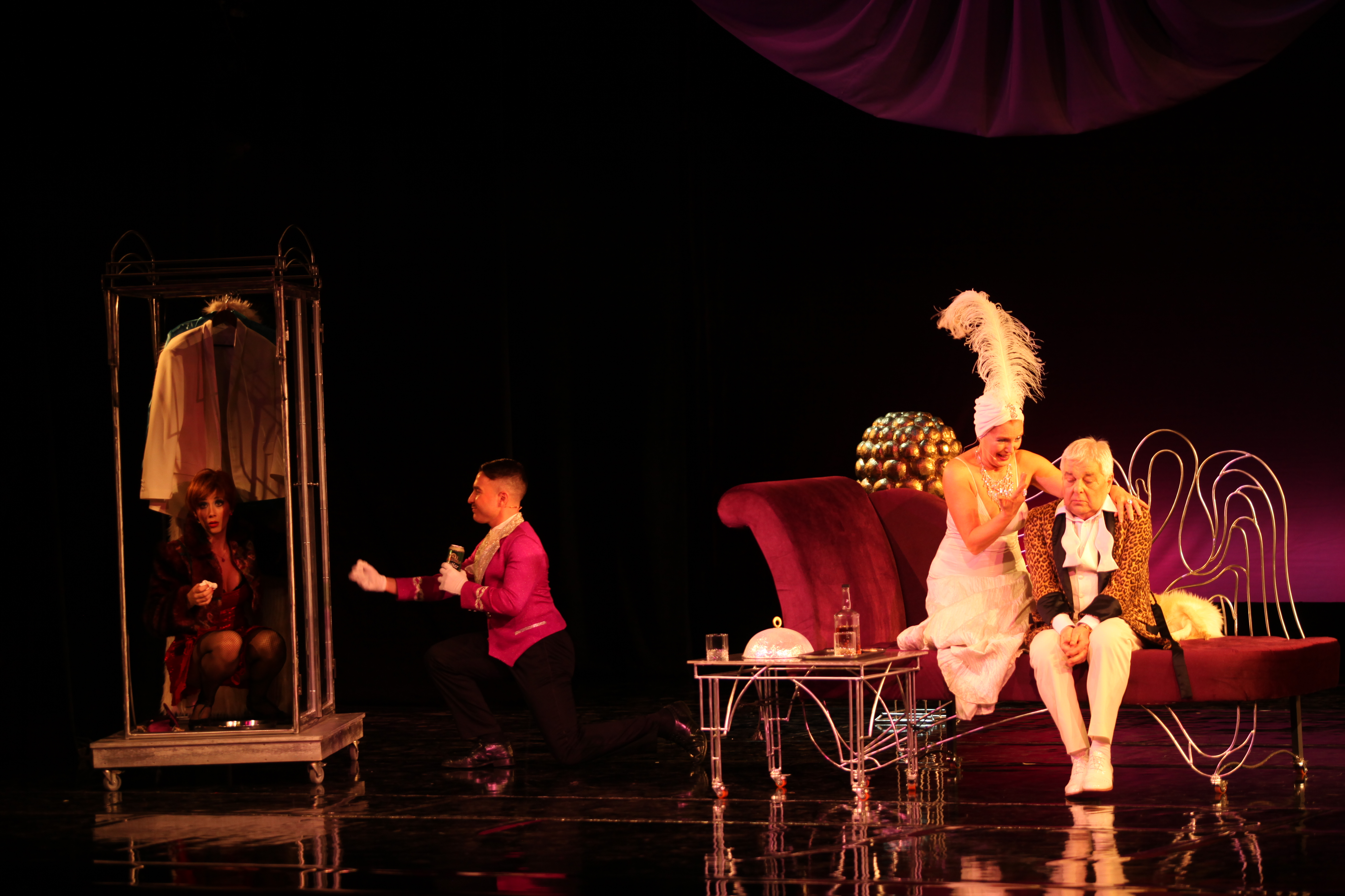 Premiere of the "Sweet Charity"